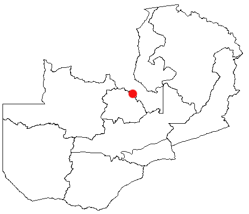 Mufulira, Zambia Location Map.